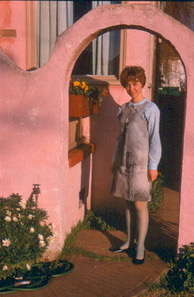 A woman wearing a paper dress in California in 1969